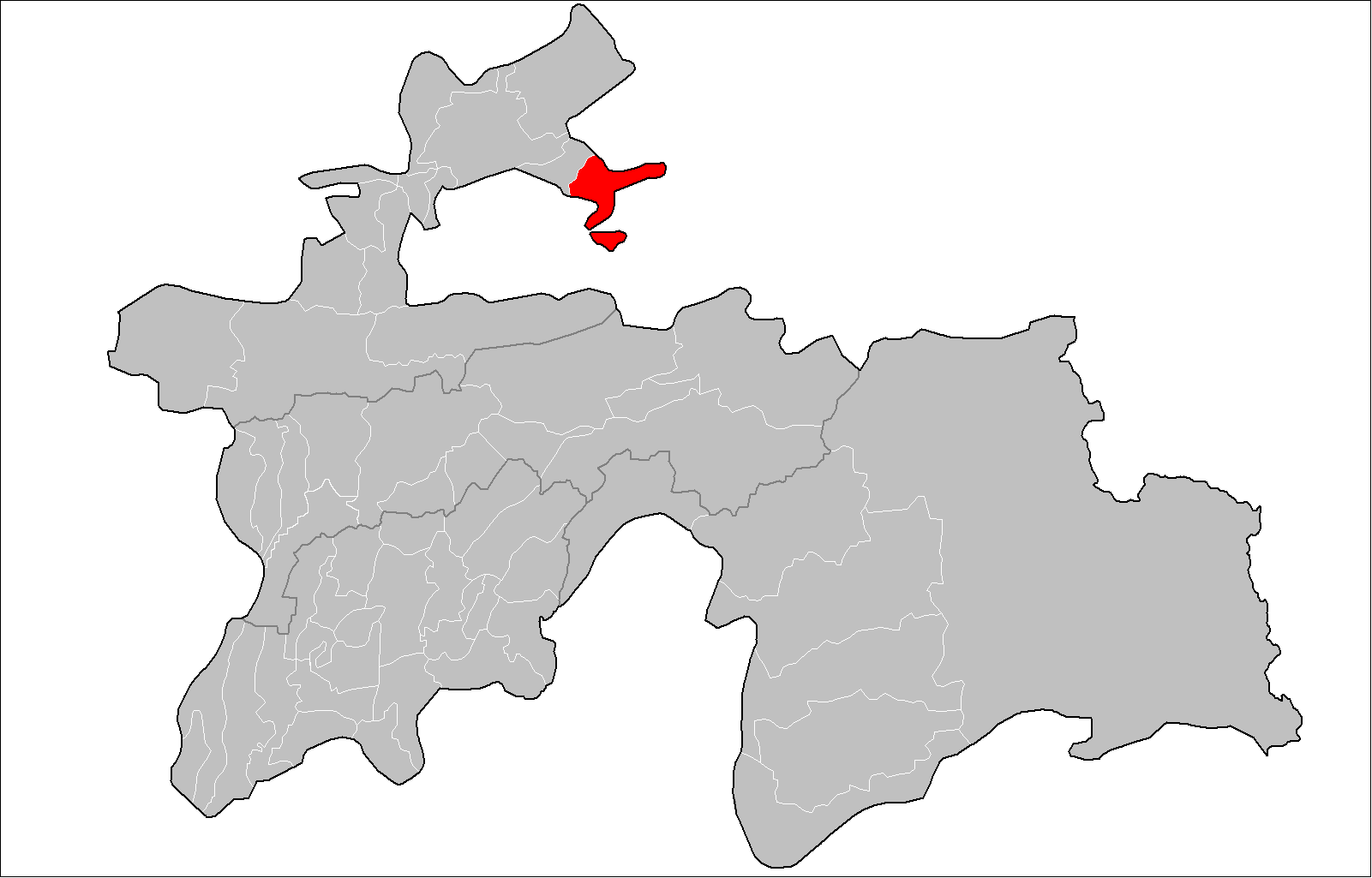 Location of Isfara District in Tajikistan